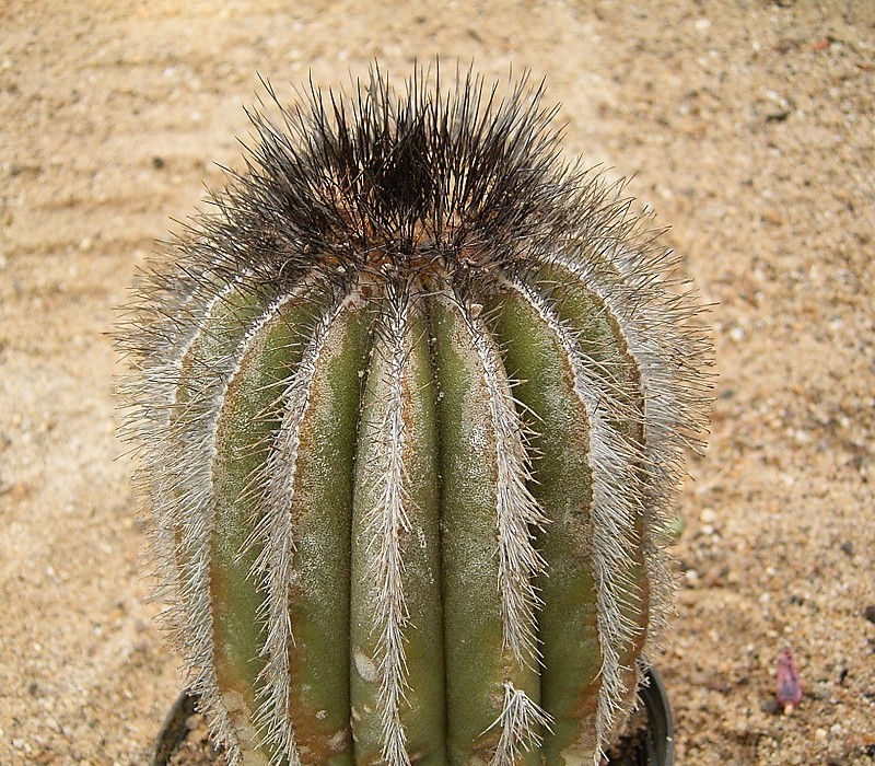 Uebelmannia pectinifera ssp. horrida